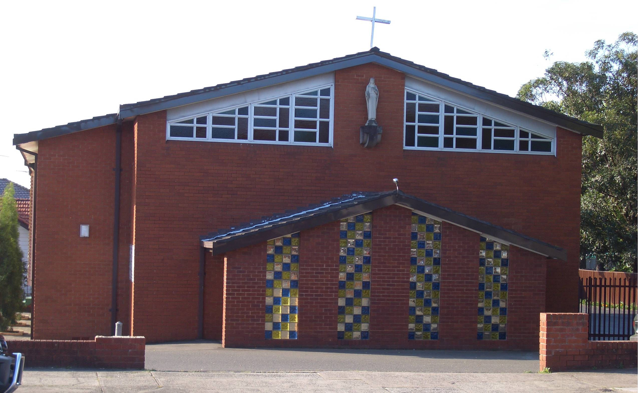 Clemton Park, William Street